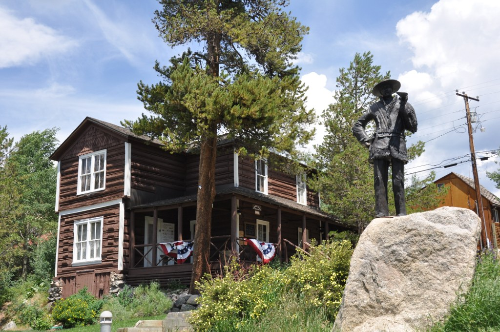 The historic Kauffmann House in Grand Lake, Colorado; now a house museum.